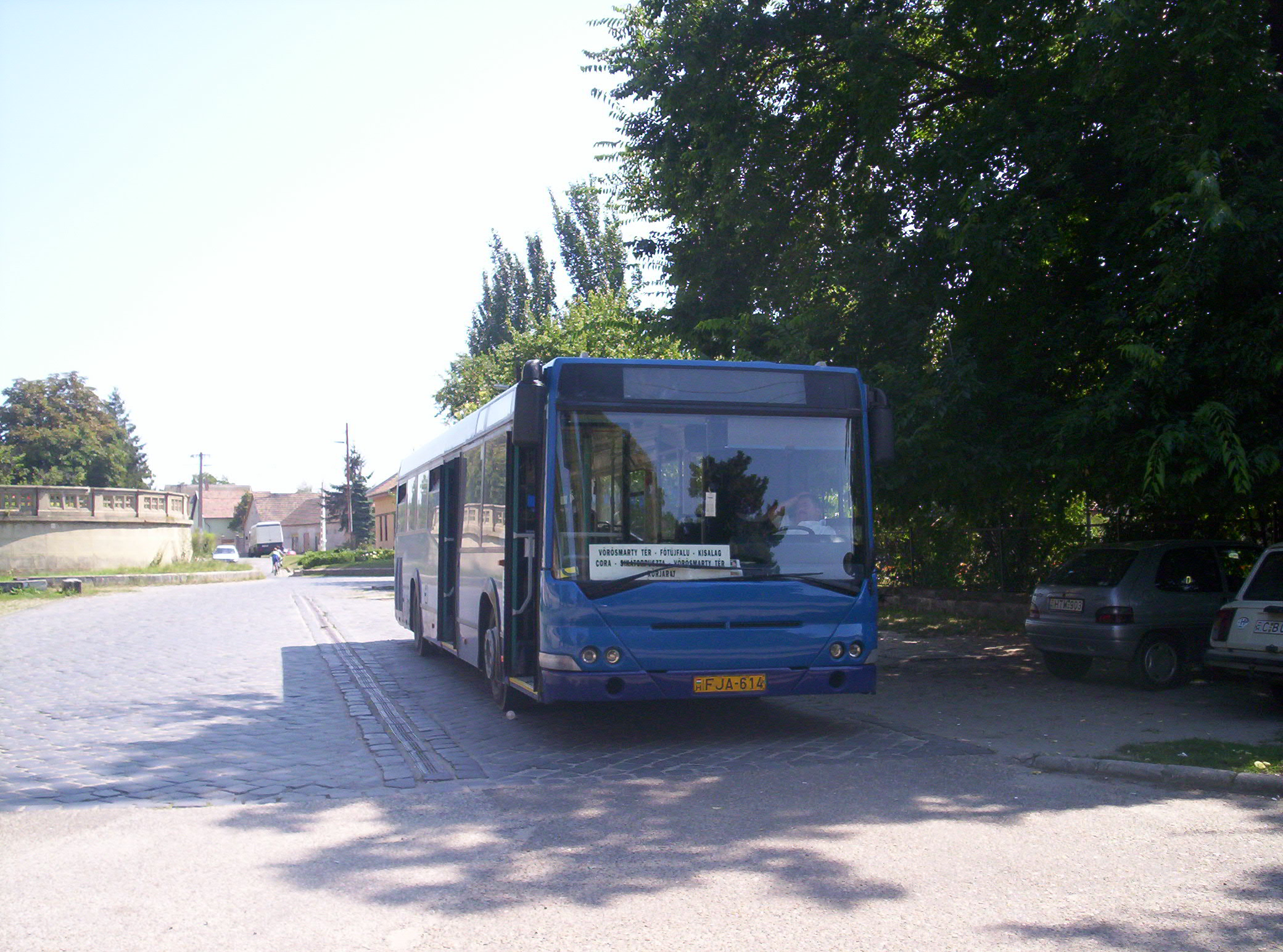 Local busline in Fót